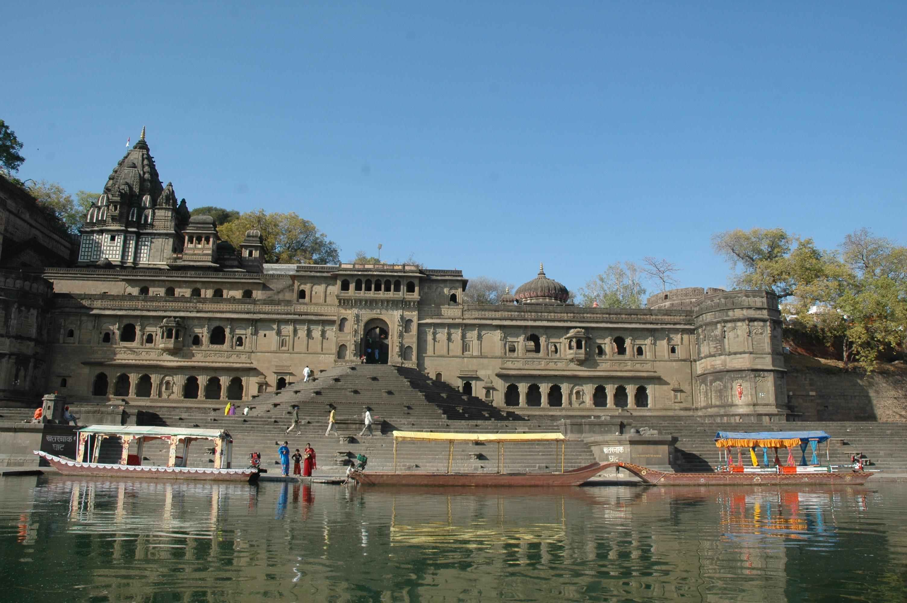 Maheshwar pic